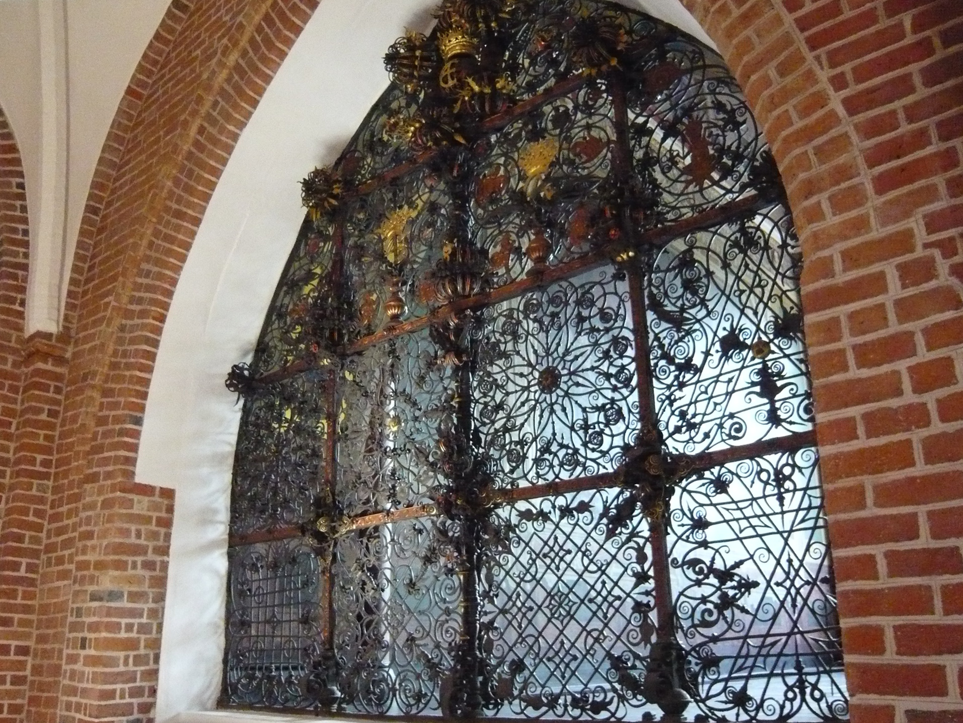 Caspar Finckes famous wrought-iron lattice, seperating Christian IV's chapel from the nave.